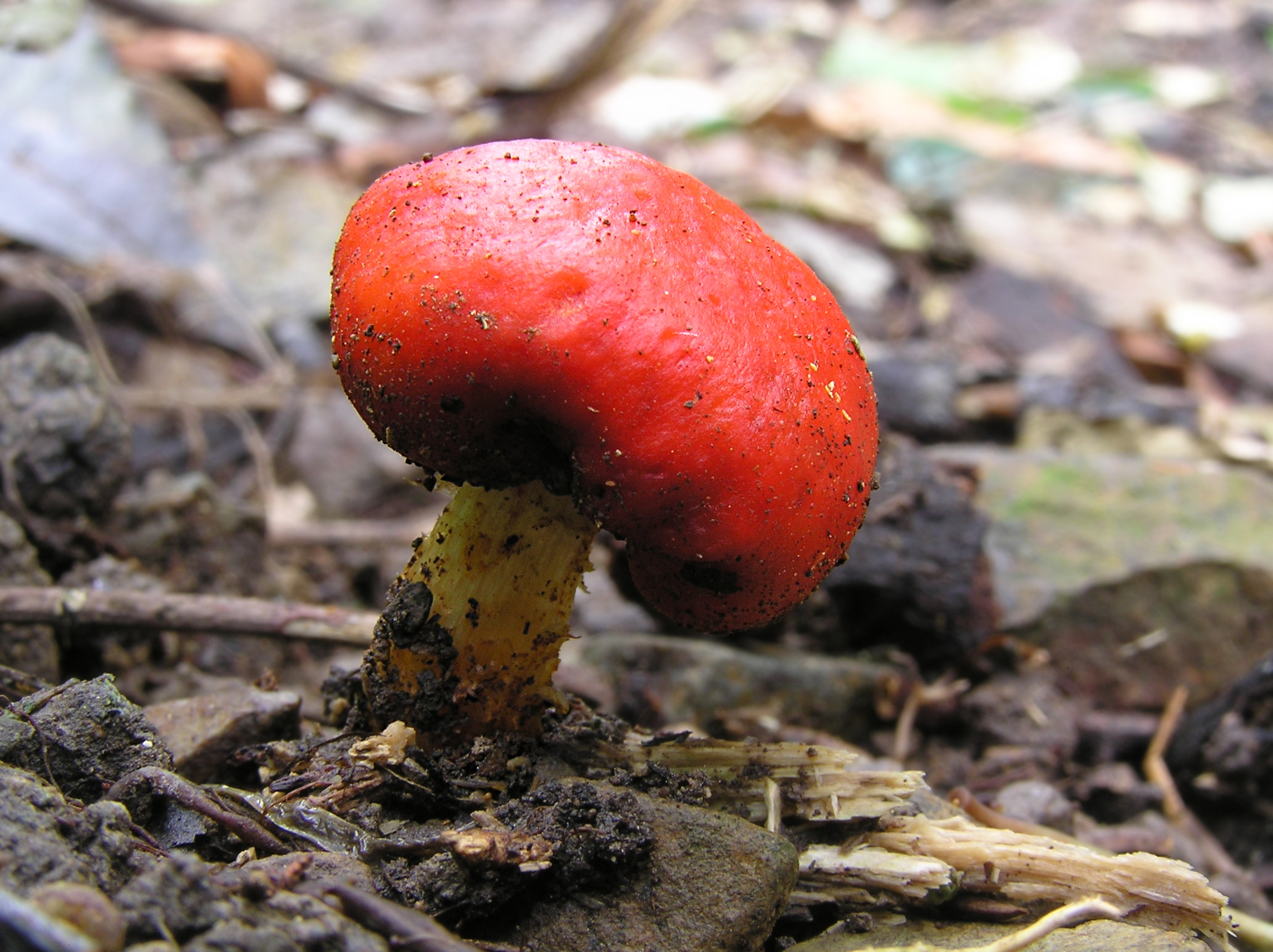 Red pouch fungus growing on the ground, under regenerating bush, Wellington, New Zealand.